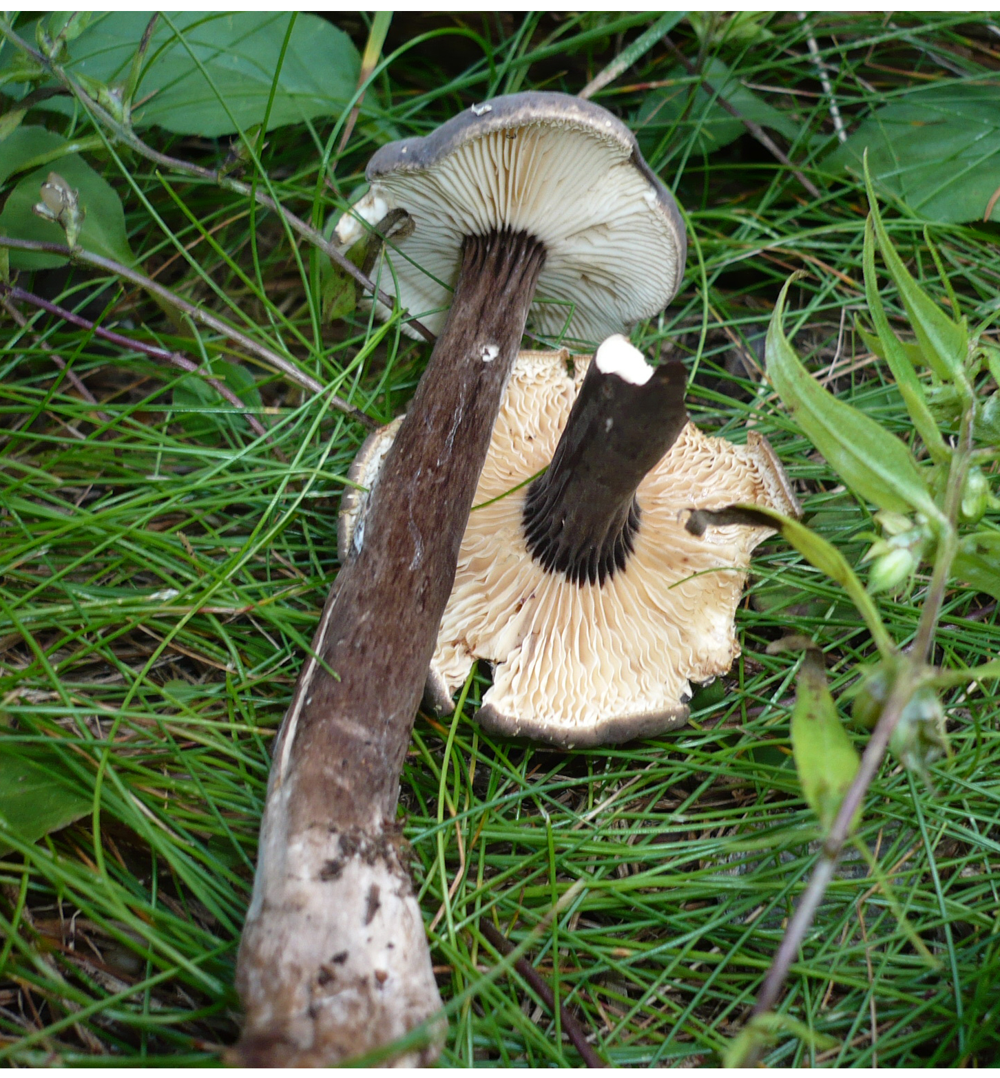 Fruit bodies of the fungus Lactarius lignyotus. Specimens found in Feistritzer Schwaig, Mariensee, Bezirk Neunkirchen, Lower Austria, Austria.